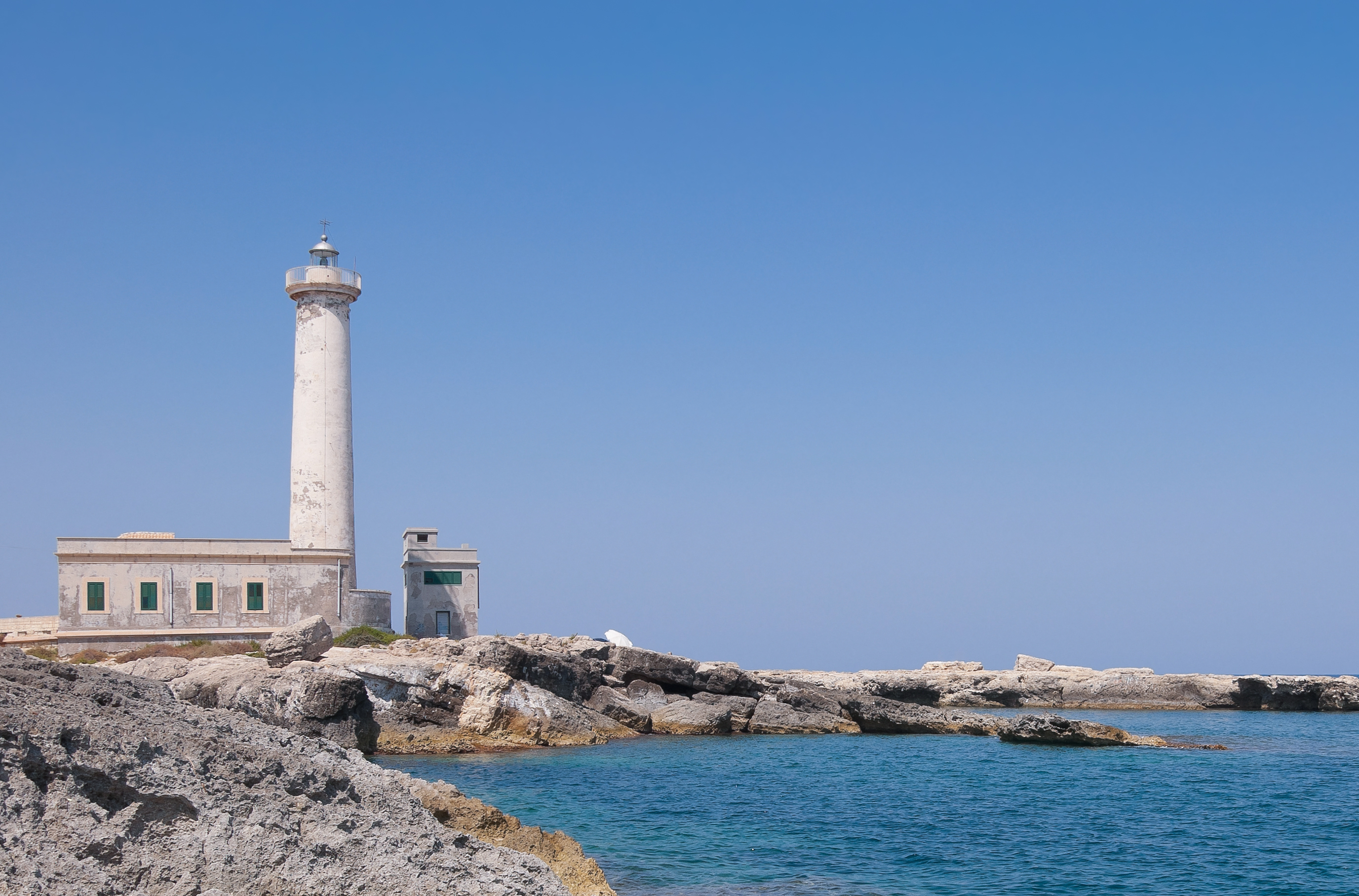 Augusta's lighthouse (Faro di Capo Santa Croce) in Sicily, Italy. The lighthouse was built by Bourbons in 1856, is 36 meters high, and is completely made of limestone.